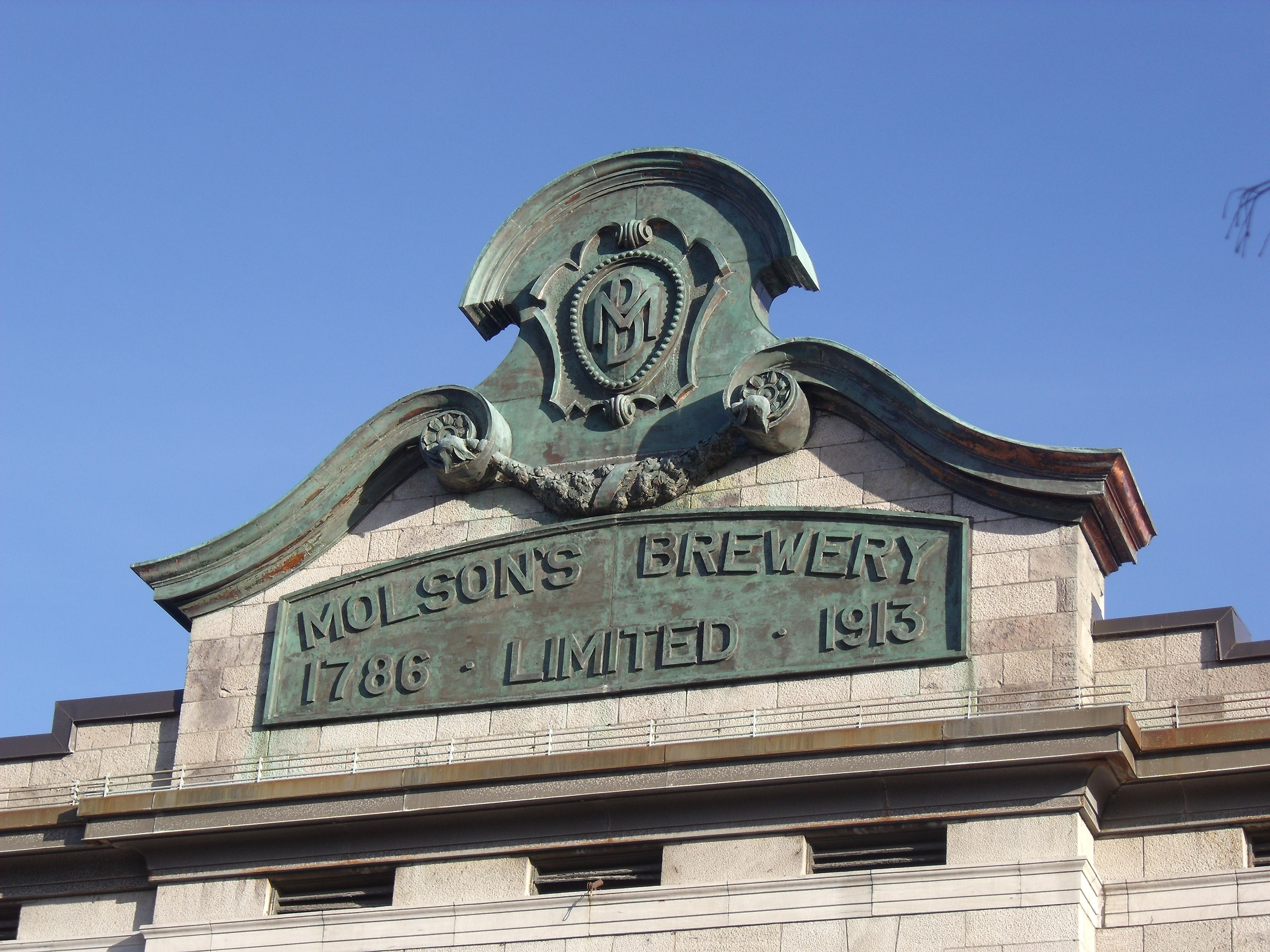 Molson Company Limited, 1500, Notre-Dame Street East, Montreal, Quebec, Canada.